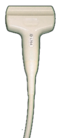 Linear Array Transducer for Sonography